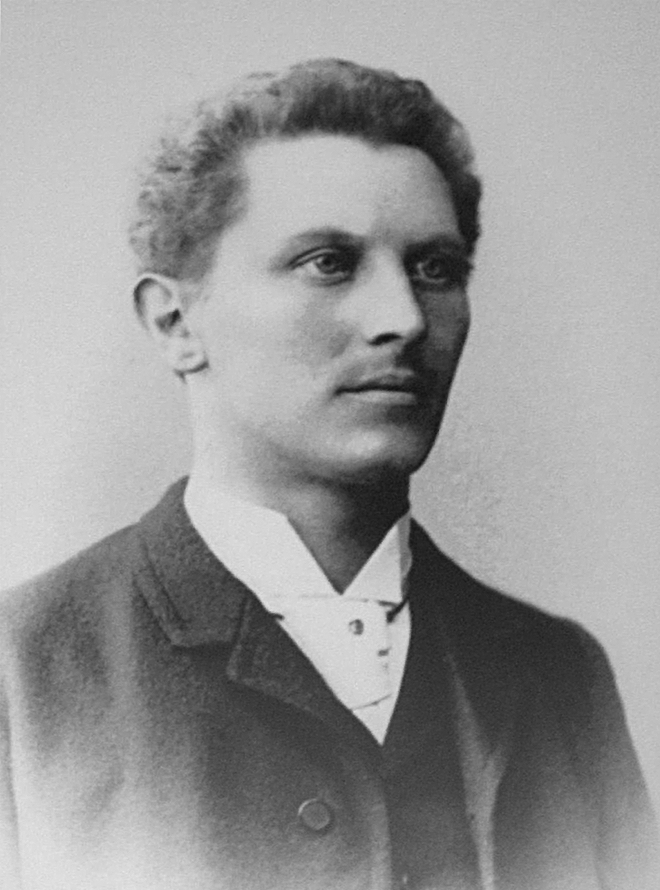 Porait of Walter Boveri